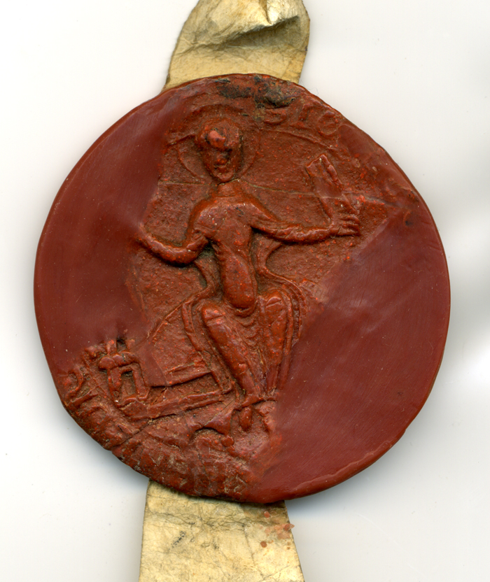 Seal of St. Benet's Abbey, Hulme in Norfolk attached to acknowledgement of the Royal Supremacy, where the English Church was made to accept Henry VIII as head instead of the Pope.This image is from the collections of The National Archives,Image no.4265298.